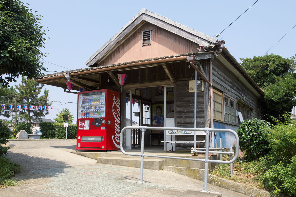 Kasagami-Kurohae Station on the Choshi Electric Railway in Chiba, Japan